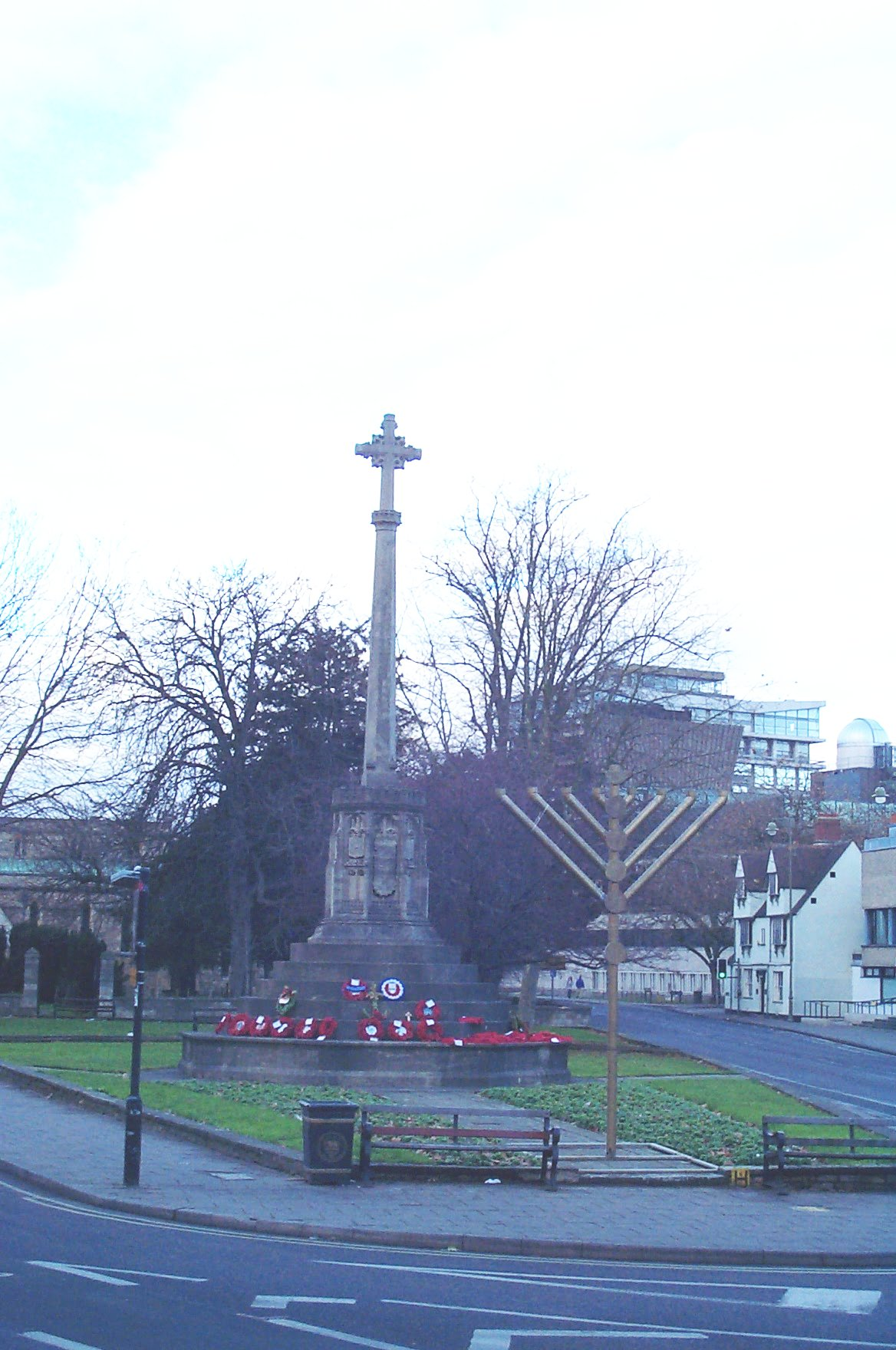 A temporary menorah in front of Oxford War Memorial at the north end of St Giles', Oxford, England